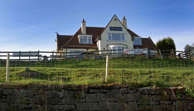 The Plough Public House, Micklebring. Looking over the M18 motorway.